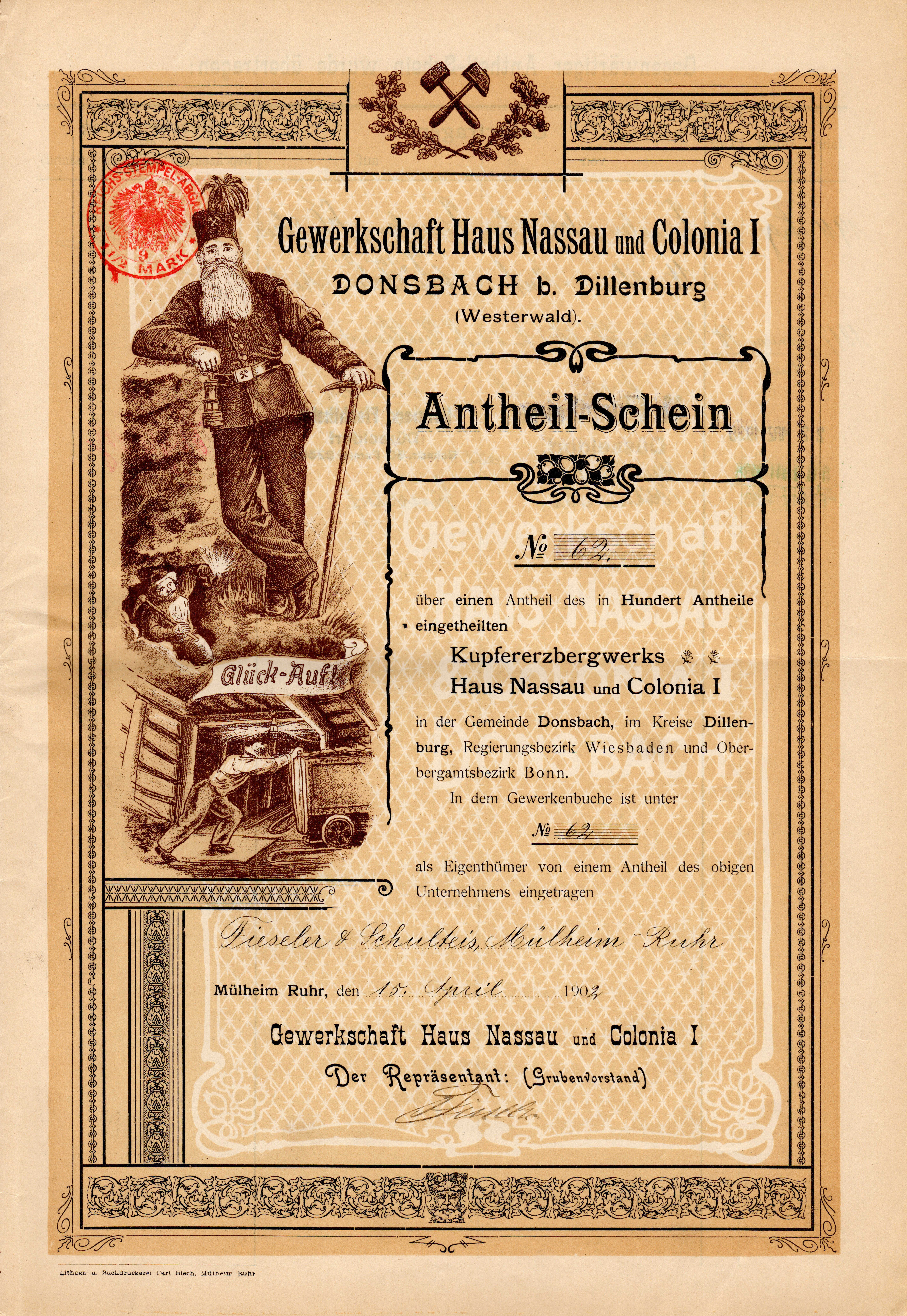 Certificate of the Gewerkschaft Haus Nassau und Colonia I, issued 15. April 1902